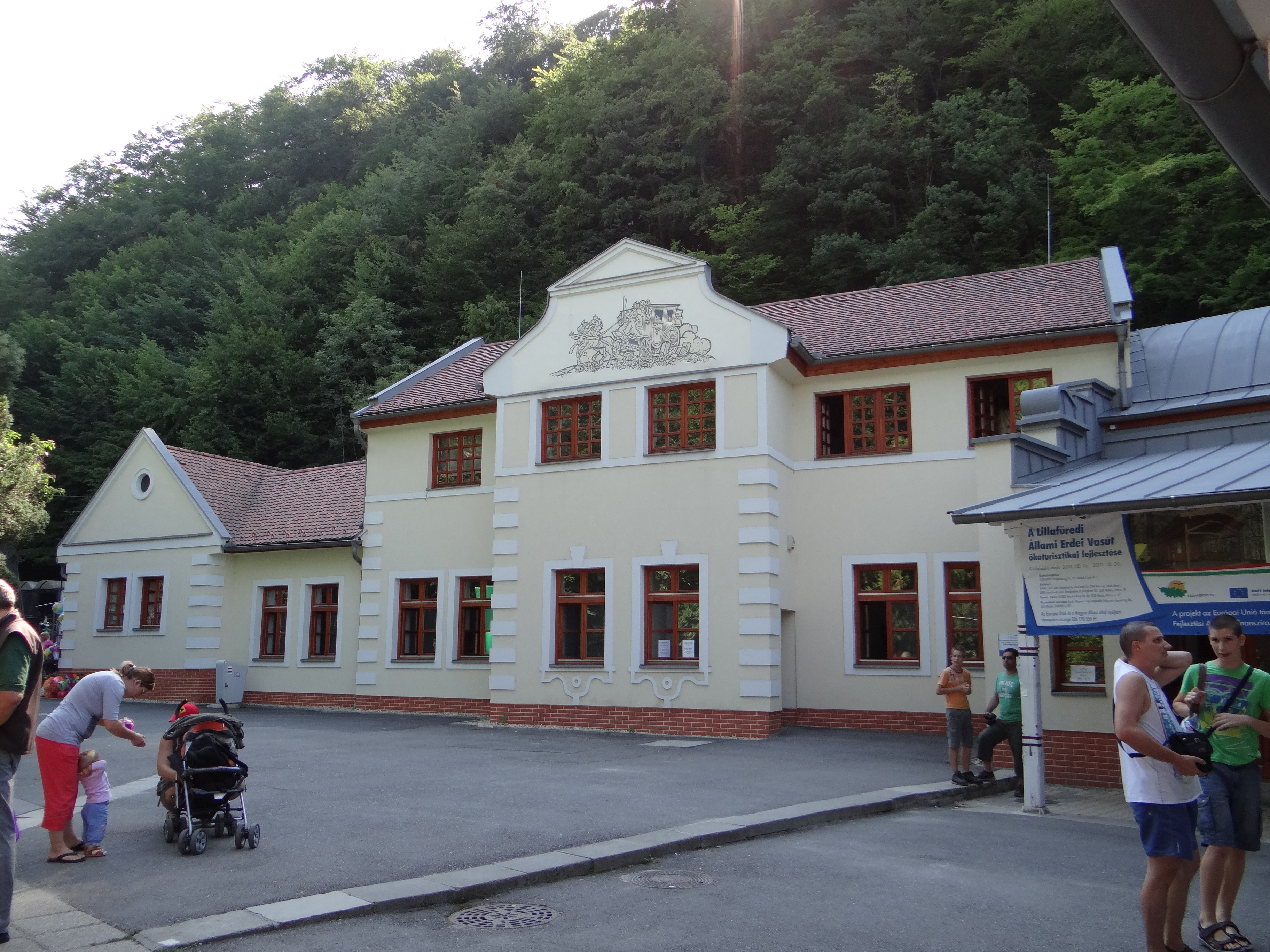 Railway station-house, Lillafüred, Hungary